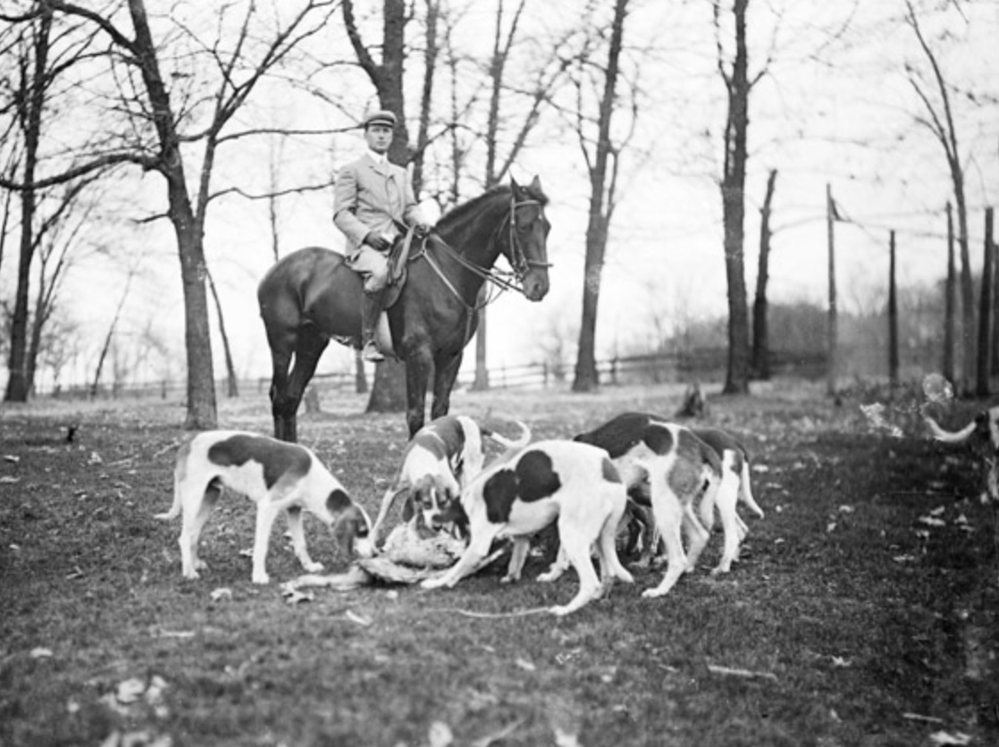 A rider on horseback with several hounds on a fox hunt sponsored by the members of the Midlothian Country Club.